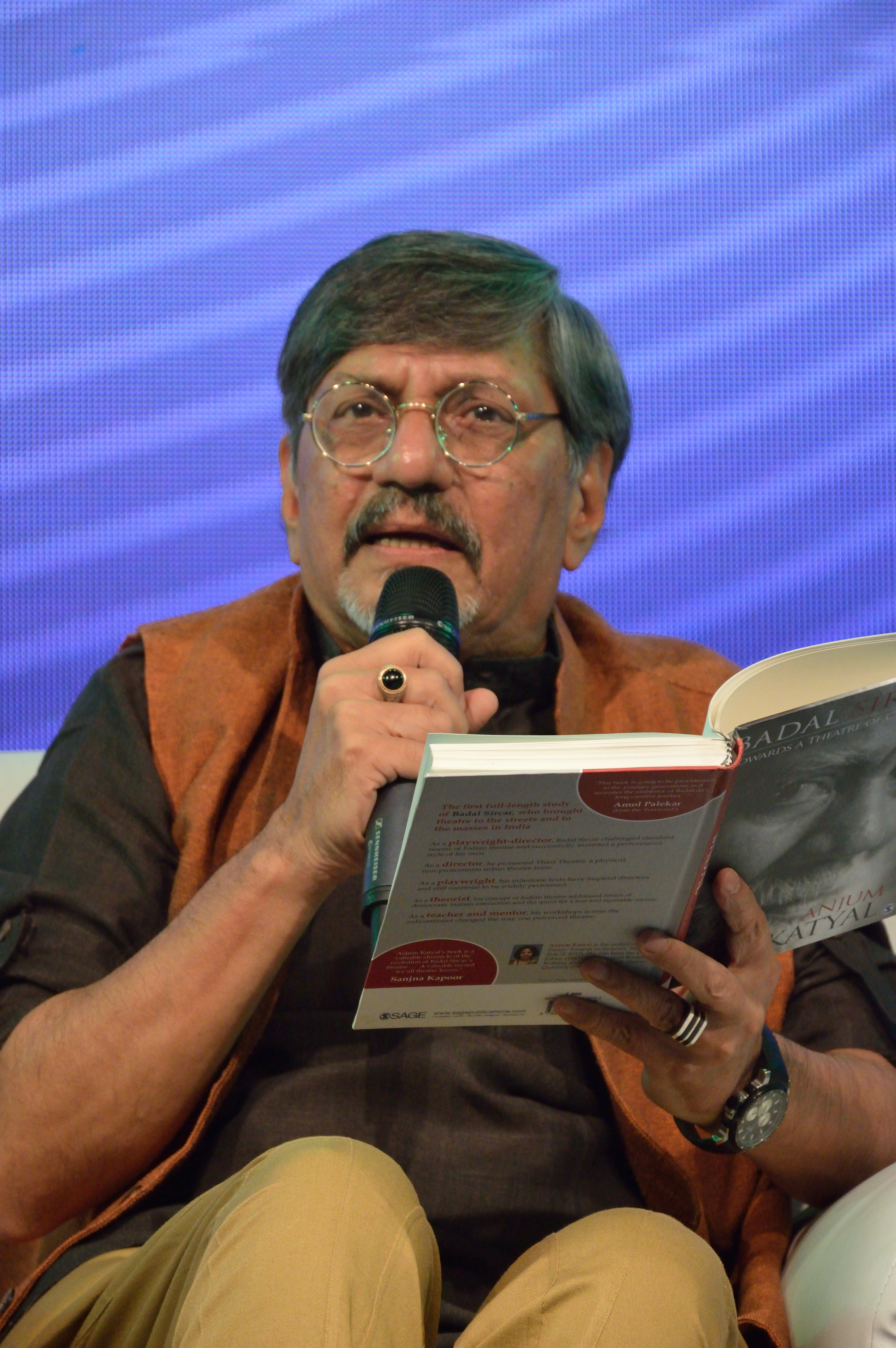 Photographed at the panel discussion - Badal Sircar and His Theater, during the 40th International Kolkata Book Fair at Milan Mela Complex, Kolkata.